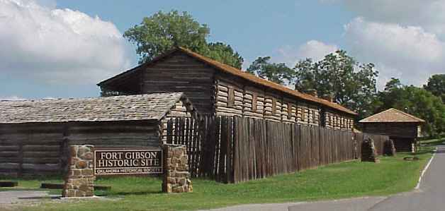 Photo of the historic Fort Gibson in Oklahoma. This was on the edge of Cherokee lands in Indian Territory.